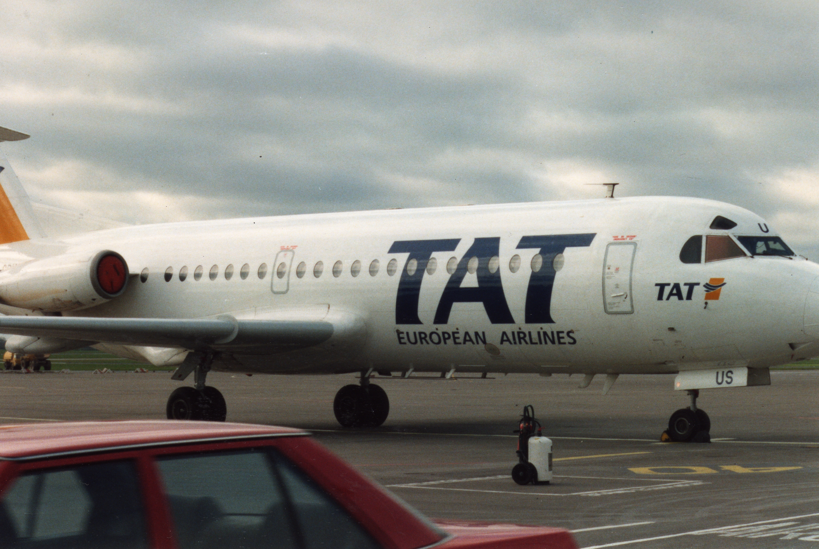 TAT European Airlines (F-GDUS) Fokker F28 Fellowship aircraft, Dublin Airport, Dublin, Republic of Ireland, February 1993